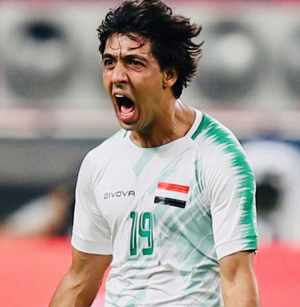 I tak the phone